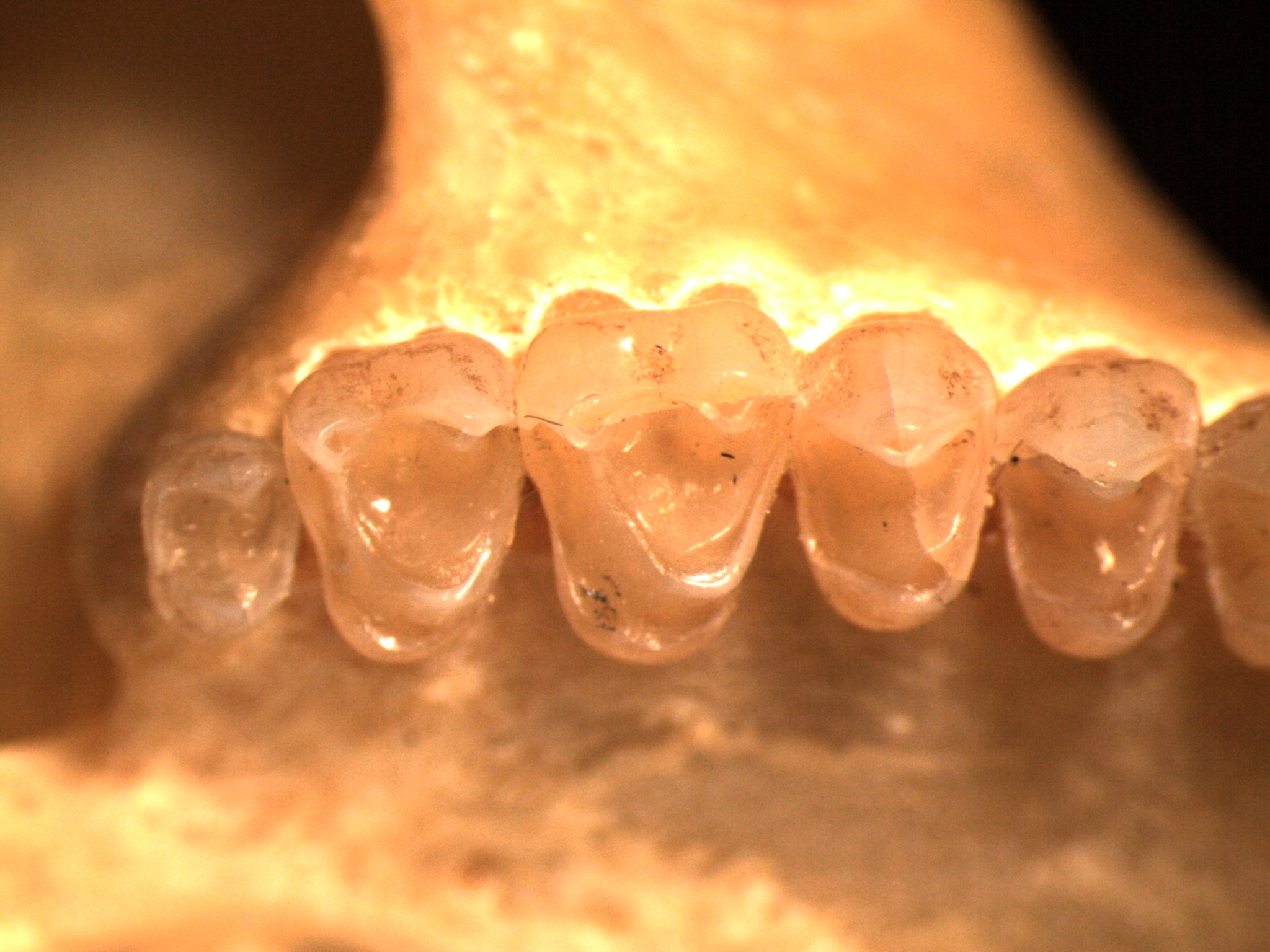 Detail of right upper tooth row of Callimico goeldii specimen showing second and third premolar, and all three molars